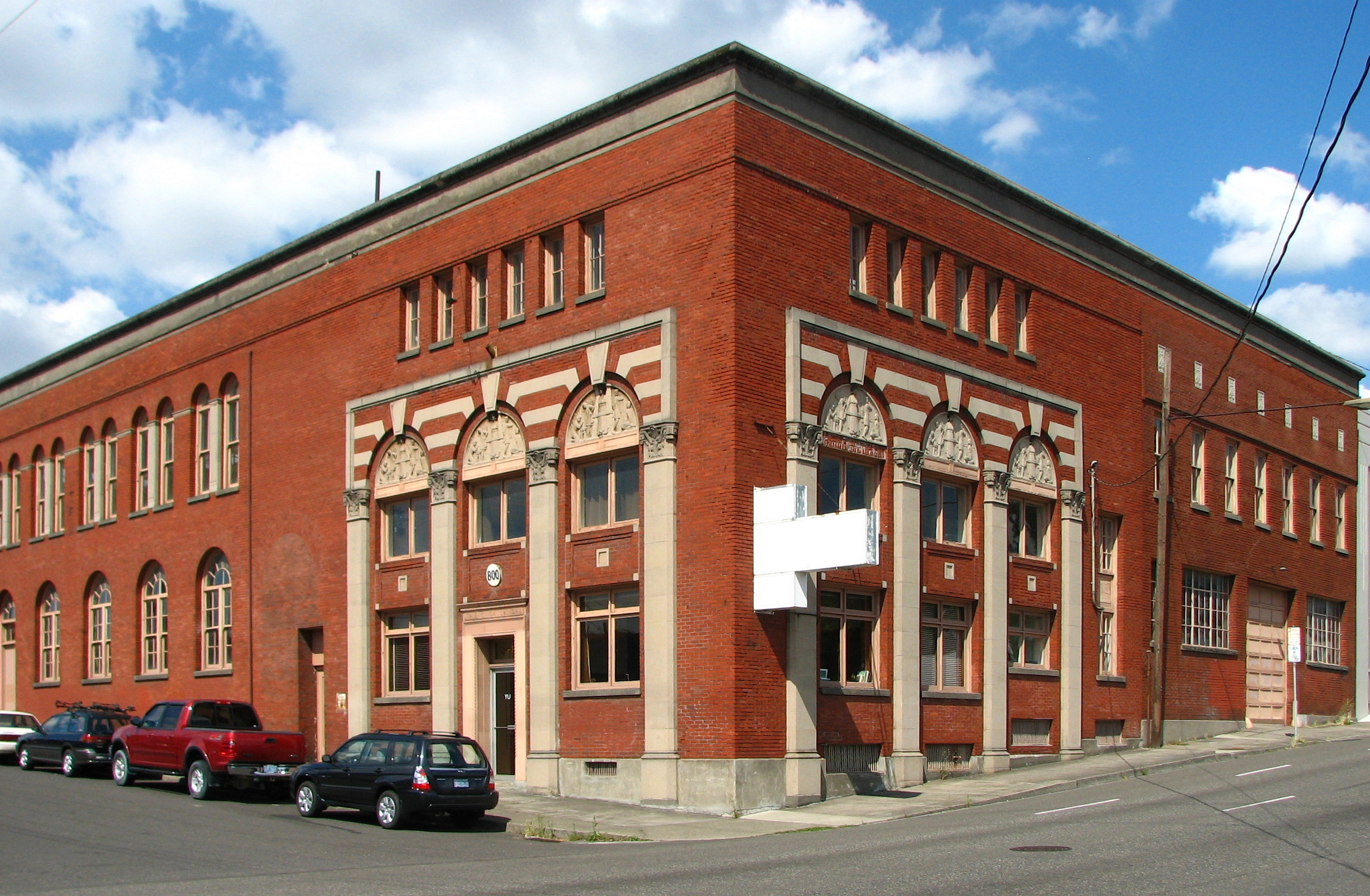 The historic Yale Union Laundry Building (built 1908), located at 800 Southeast 10th Avenue in Portland, Oregon, United States, is listed on the US National Register of Historic Places.